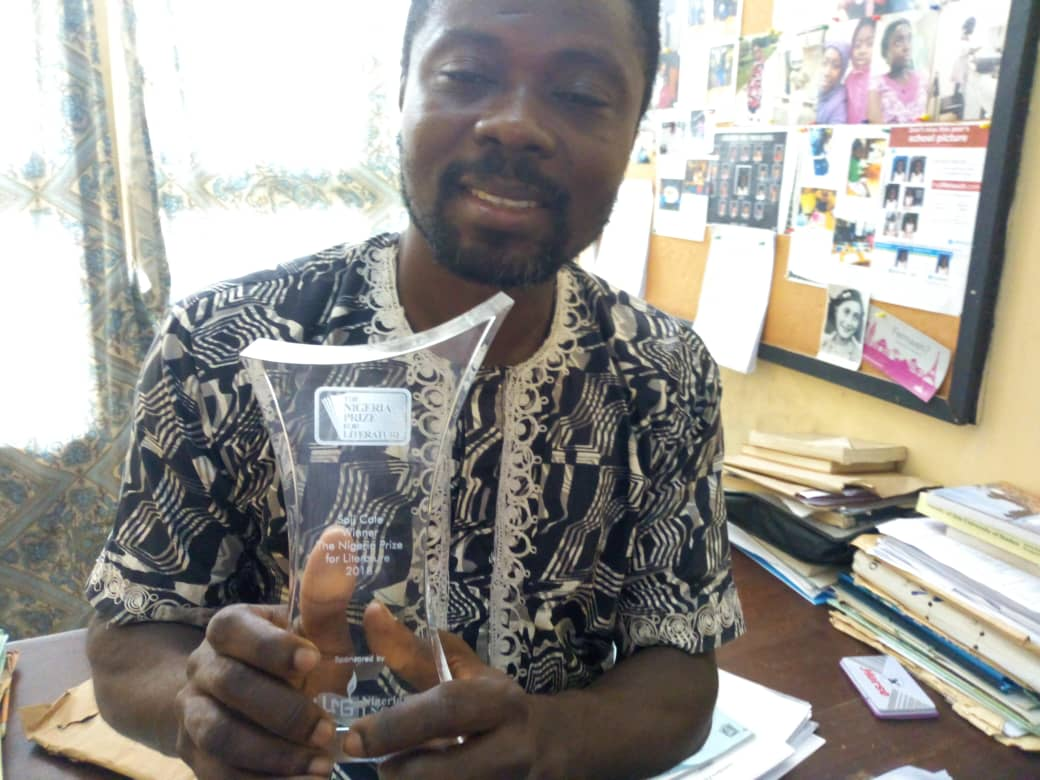 2018 NLNG Prize for Literature winner, Soji Cole in his office at University of Ibadan in October 2018